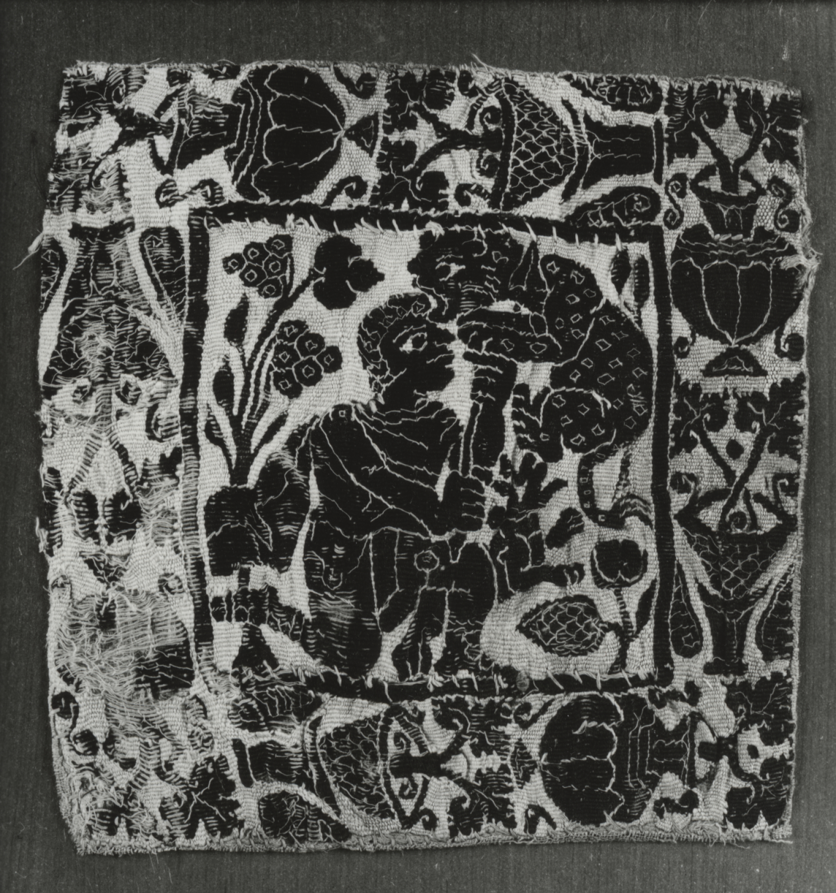 Hunt and hunting motifs constitute a group of 5th-century classical subjects, which frequently appeared in early Byzantine textiles. While the content of the scenes was frequently symbolic in wall hangings and other pieces of interior decoration, hunt scenes as they appeared on clothing were generally intended as purely decorative. Framing the central subject of this fragment is a border composed of wine jugs and grape vines, a probable reference to Dionysus, the god of regeneration and rebirth.